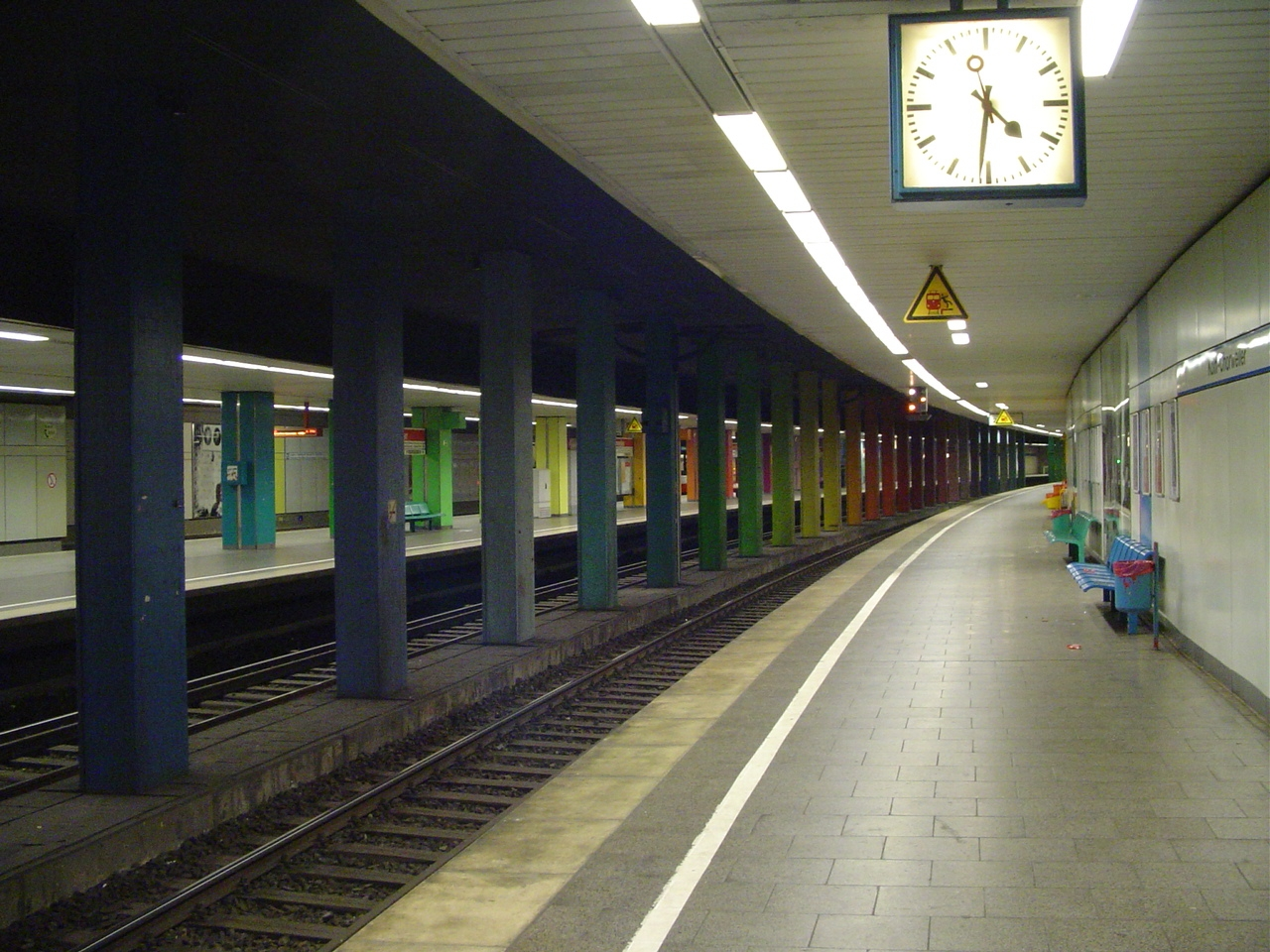 Chorweiler Station (combined S-Bahn and Underground/Stadtbahn), Cologne, Germany